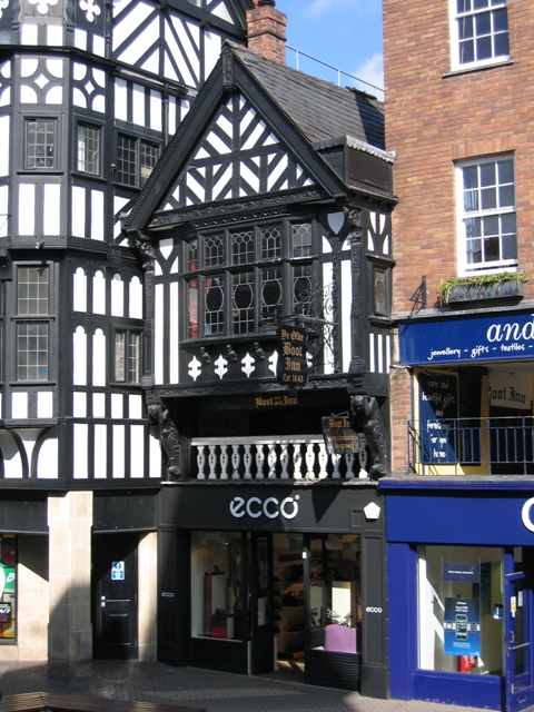 Ye Olde Boot Inn, Eastgate Row The Boot Inn on Eastgate Row is a genuine 17th century building dating to 1643. The shoe shop Ecco has the ground floor level and the inn has the upper two storeys.